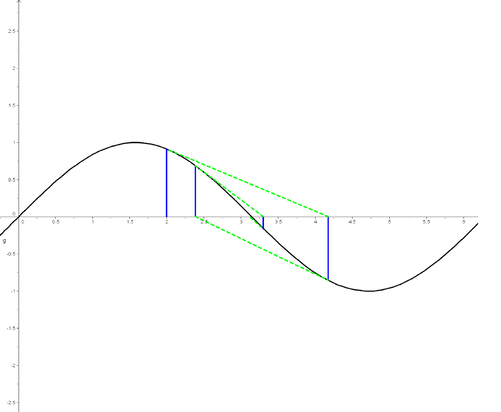 Approximation of function f(x)=sin(x) using tangents.